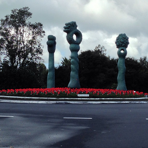 Roundabout on the intersection of Titirangi Road, Scenic Drive, Huia Road, Atkinson Road, and Kohu Road. Auckland, New Zealand